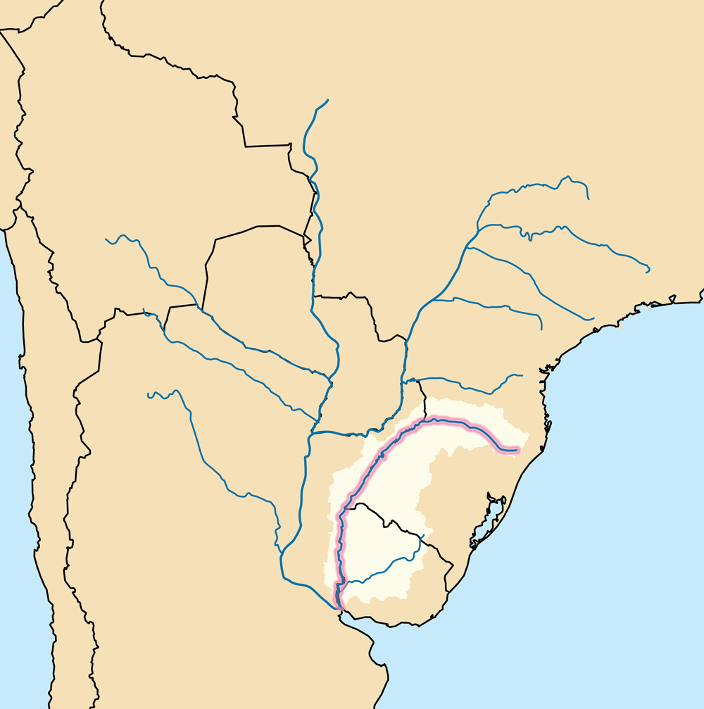 A map showing the Uruguay Basin (pale tan) — the drainage basin of the Uruguay River (highlighted). The tributaries of the Uruguay River are also shown, including its longest one, the Río Negro.